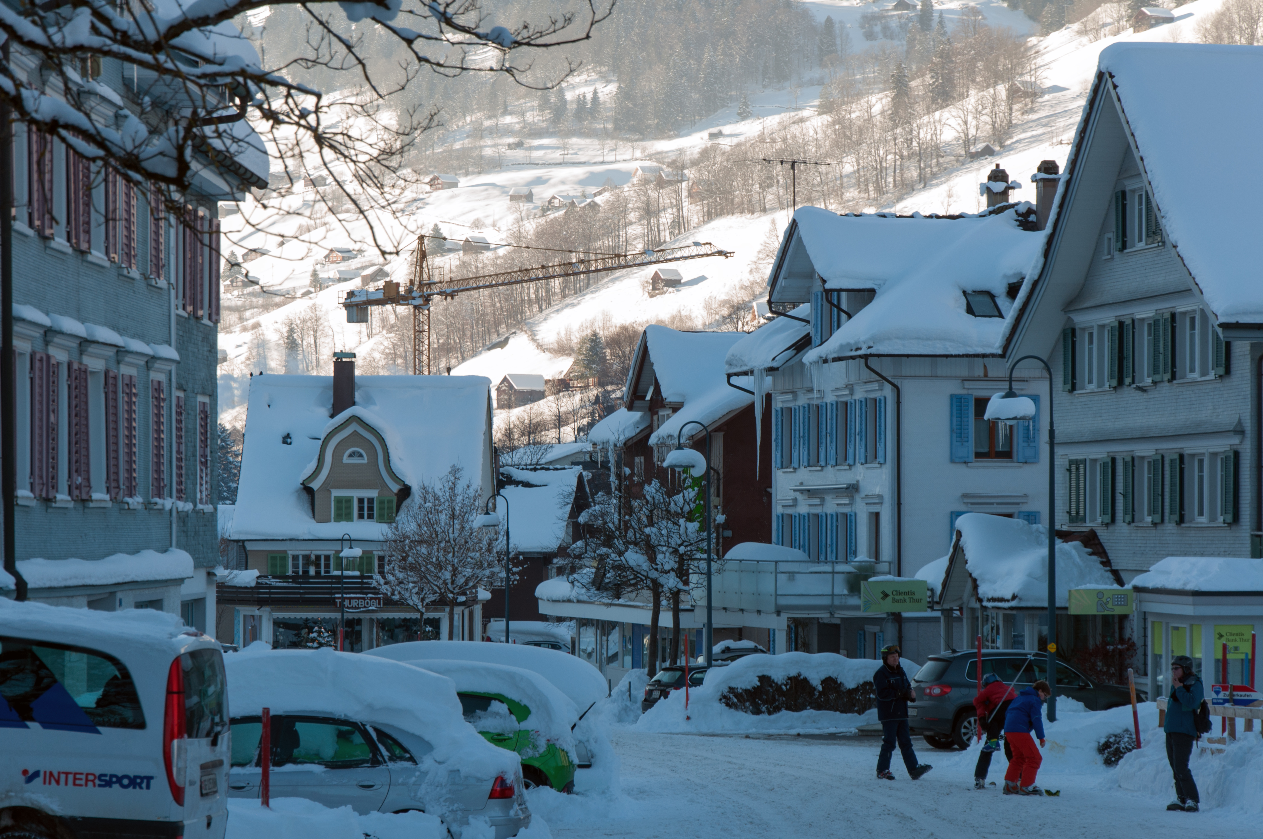 Switzerland, Canton of St. Gallen, late afternoon horse sled tour in Unterwasser